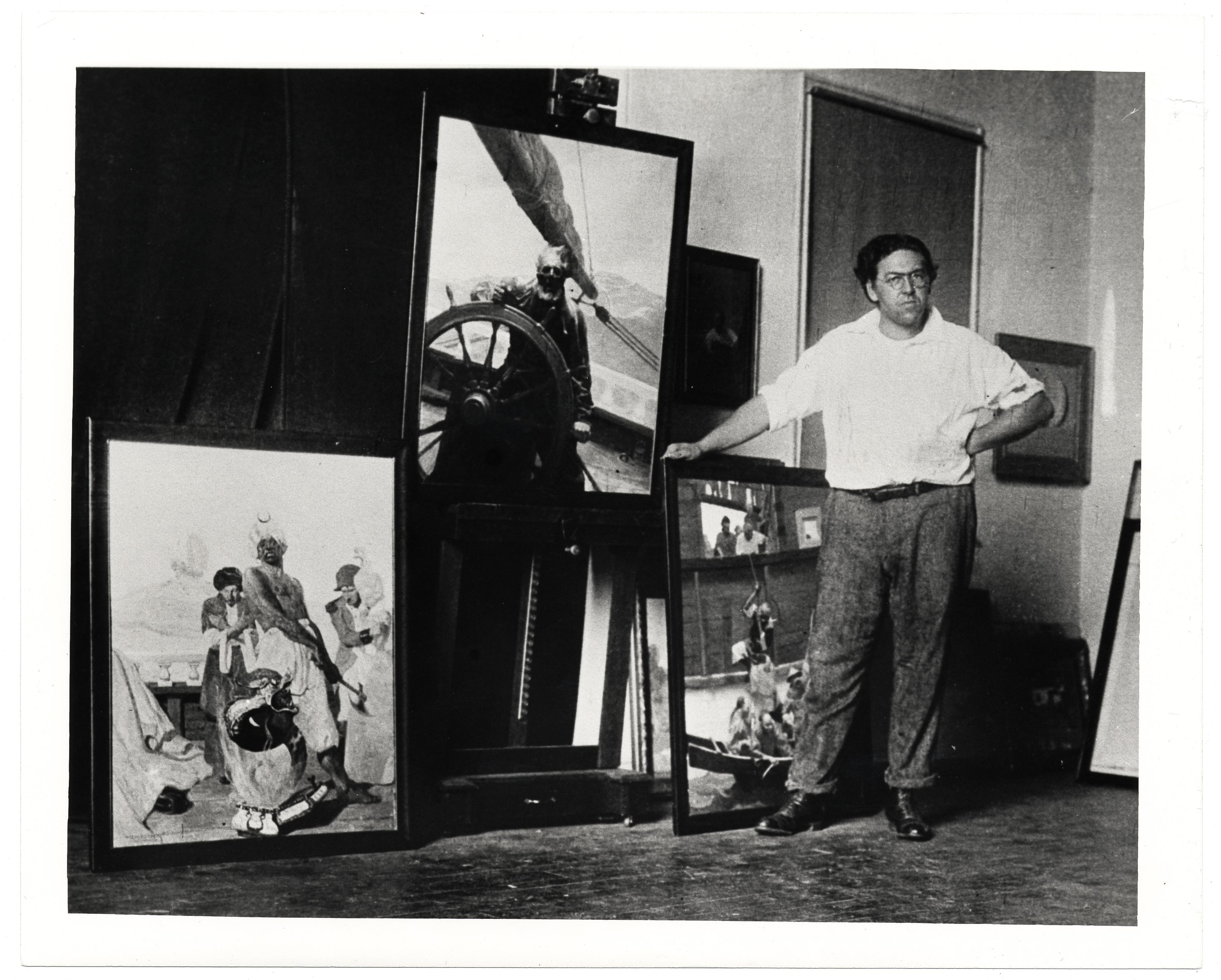 Description: Wyeth in his studio, ca. 1930, photographer unknown. Wyeth, N. C. (Newell Convers), 1882-1945 Creator/Photographer: Unidentified photographer Medium: Black and white photographic print Dimensions: 21 cm x 26 cm Date: c. 1930 Persistent URL: Repository: Archives of American Art Accession number: aaa_miscphot_6926